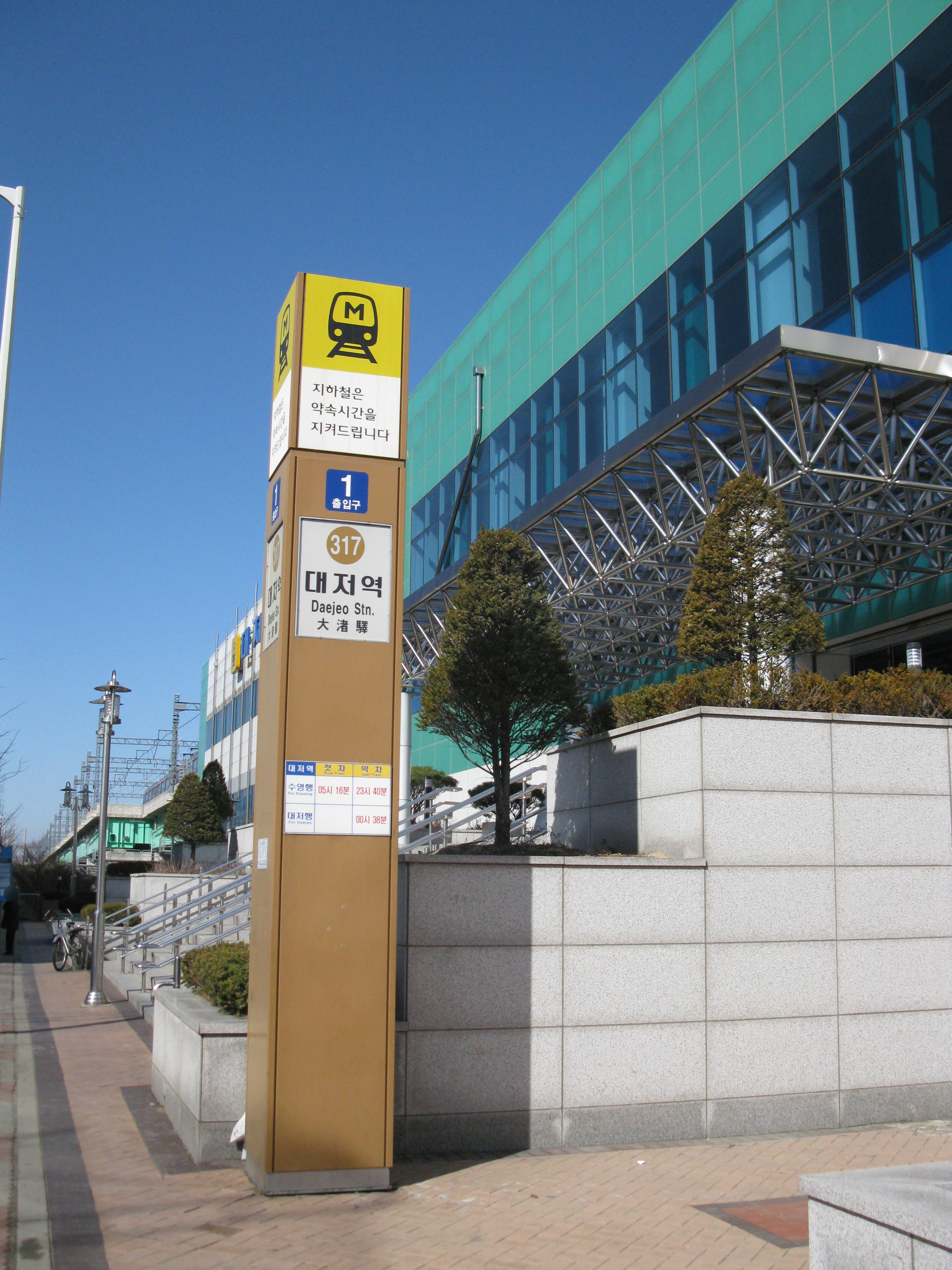 The no.1 entrance to Daejeo Station on the Busan Subway Line 3 in Gangseo-gu, Busan, Republic of Korea(South Korea)